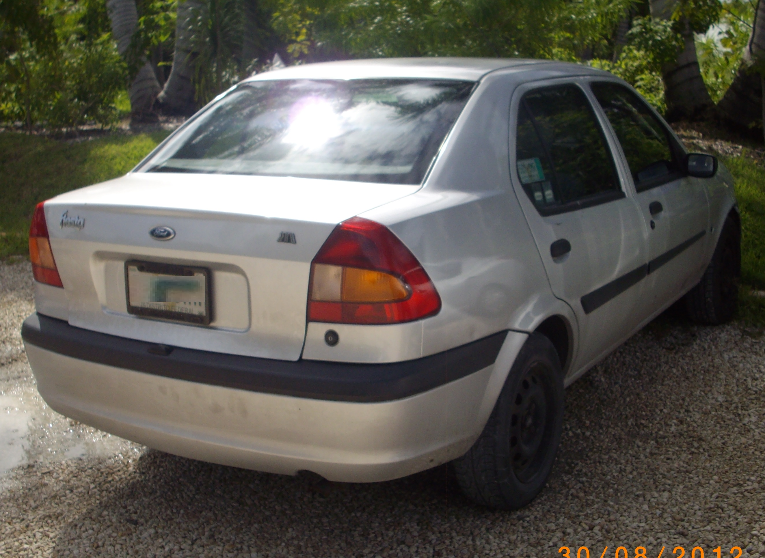 1999-2001 Ford Fiesta photographed in Quintana Roo, Mexico.